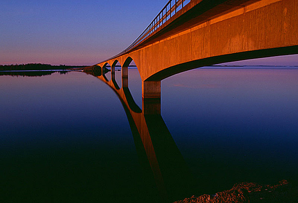 The bridge to Seskarö in northern Sweden.